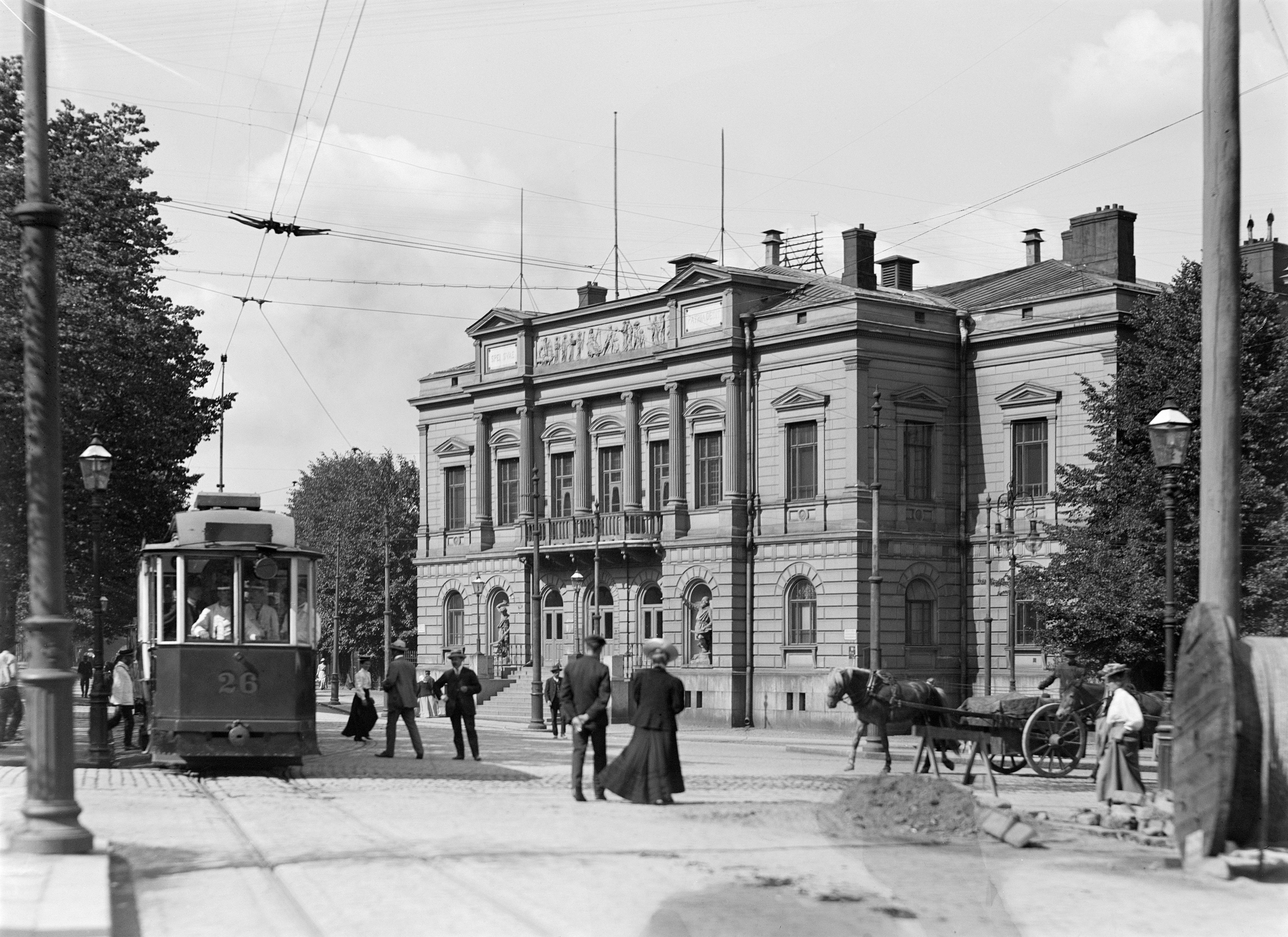 Student Union Building on Itäinen Heikinkatu (now Mannerheimintie) in Helsinki, Finland. Glass negative.